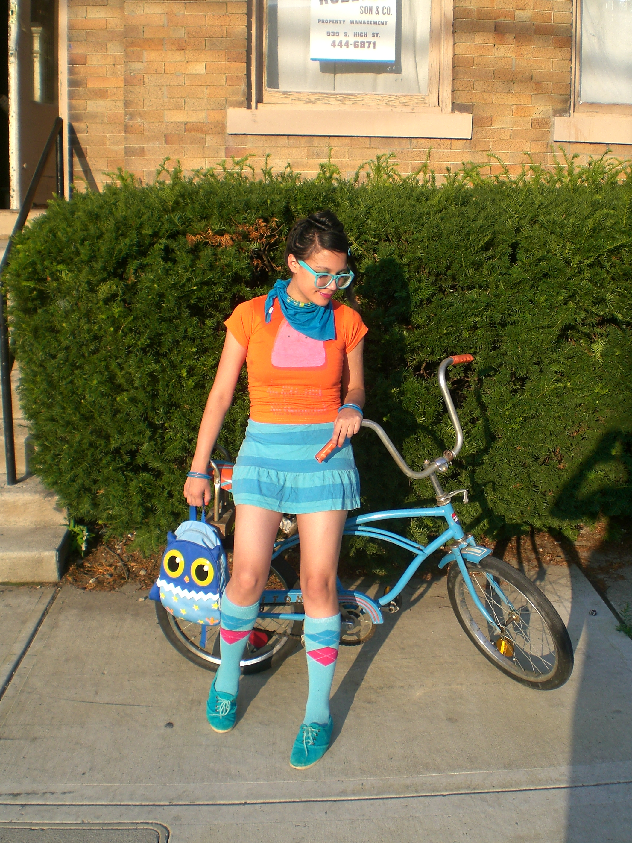 Artist's description: HAND SILKSCREENED ITEMS: I designed and printed the bandanna, which says "I DENY BEING A HIPSTER WHO DENIES BEING A HIPSTER" when unfolded; Claude made the "Loud Cloud" shirt with Zardoz on it. THE REST: layered chemise and socks from Target, thrifted sneakers, my bag nicknamed Owsley from Target, bright orange nail polish from Milani, plastic bracelets from Rag-o-Rama, Fred Flare glasses relensed by BIKE: Not actually a Schwinn; it's a vintage boy's bike from a Japanese brand named Itoh and I know the bike geeks are going to make fun of it (NO GEARS AND A FORTY YEAR OLD CHAIN?) but it's probably the most comfortable bike I've ever ridden.